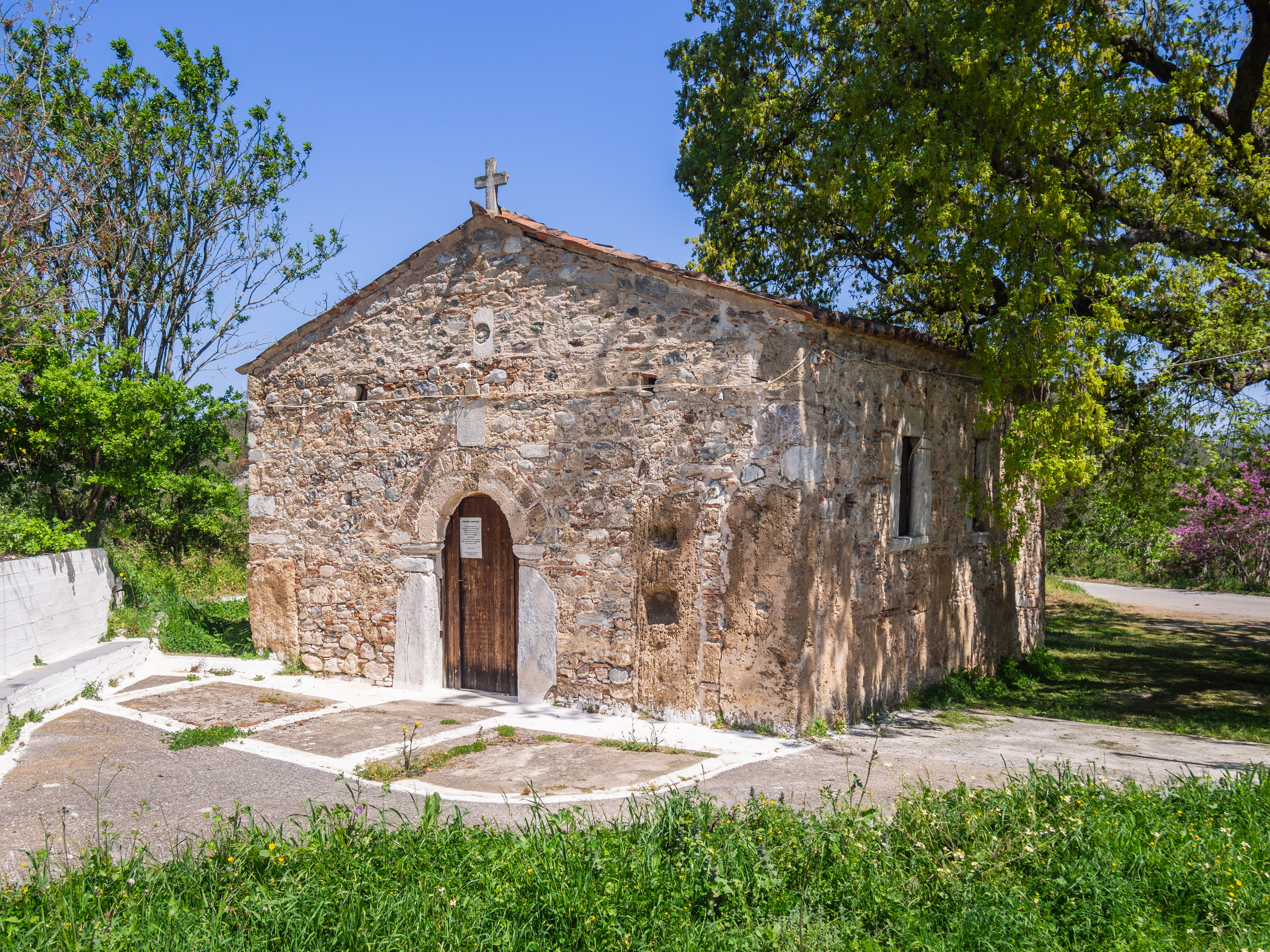 The church of Saint John Baptist known as Revithas, near Agios Georgios, Kymi-Aliveri. It dates from 12th to 15th century.